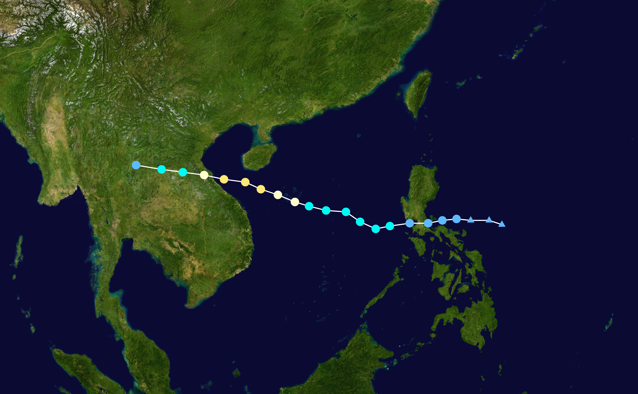 Track map of Typhoon Doksuri of the 2017 Pacific typhoon season. The points show the location of the storm at 6-hour intervals. The colour represents the storm's maximum sustained wind speeds as classified in the Saffir–Simpson scale (see below), and the shape of the data points represent the nature of the storm, according to the legend below. Saffir–Simpson scale Tropical depression≤38 mph≤62 km/h Category 3111–129 mph178–208 km/h Tropical storm39–73 mph63–118 km/h Category 4130–156 mph209–251 km/h Category 174–95 mph119–153 km/h Category 5≥157 mph≥252 km/h Category 296–110 mph154–177 km/h Unknown Storm type Tropical cyclone Subtropical cyclone Extratropical cyclone / Remnant low / Tropical disturbance / Monsoon depression